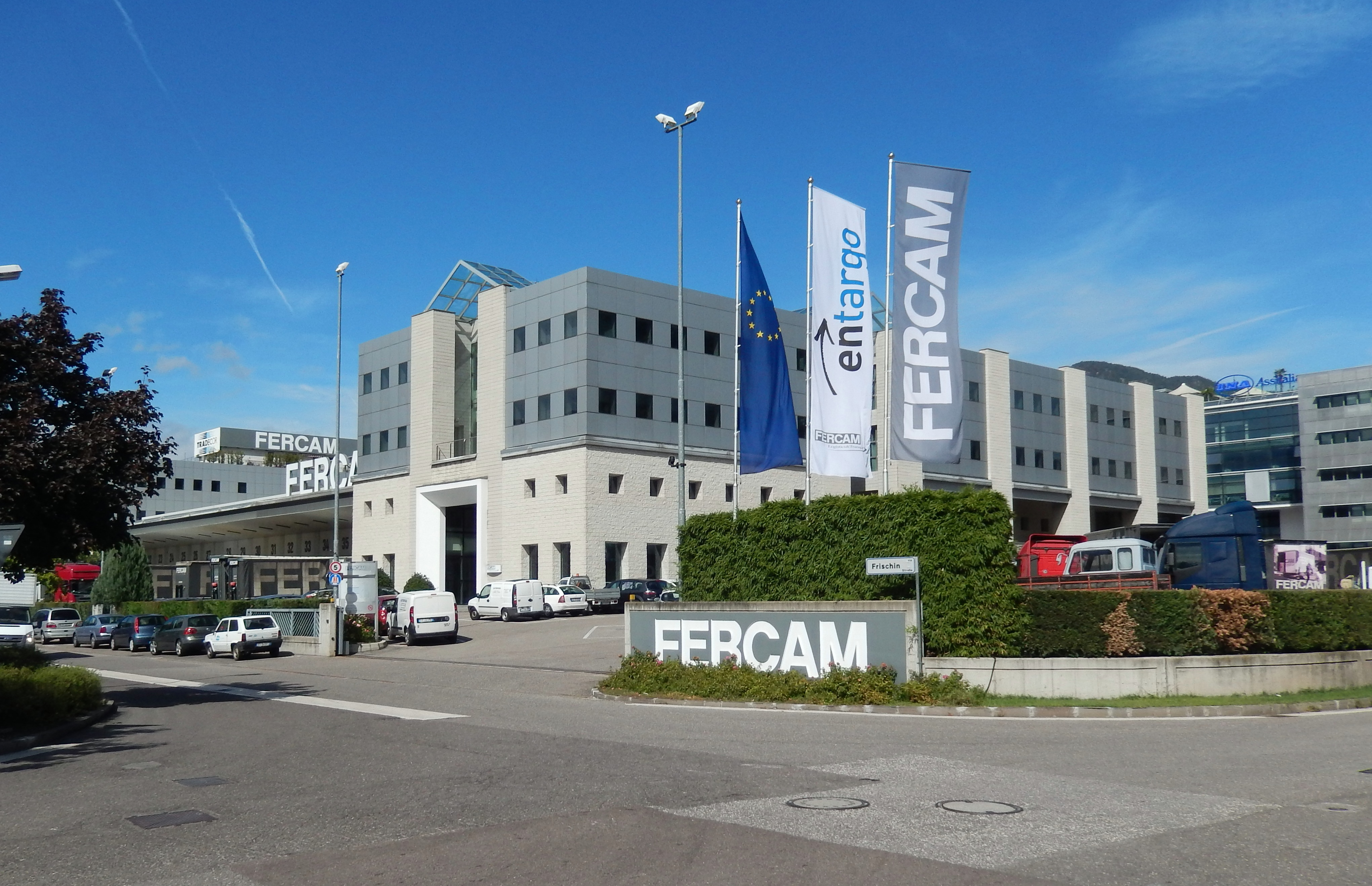 FERCAM headquarter in Bolzano, Italy.